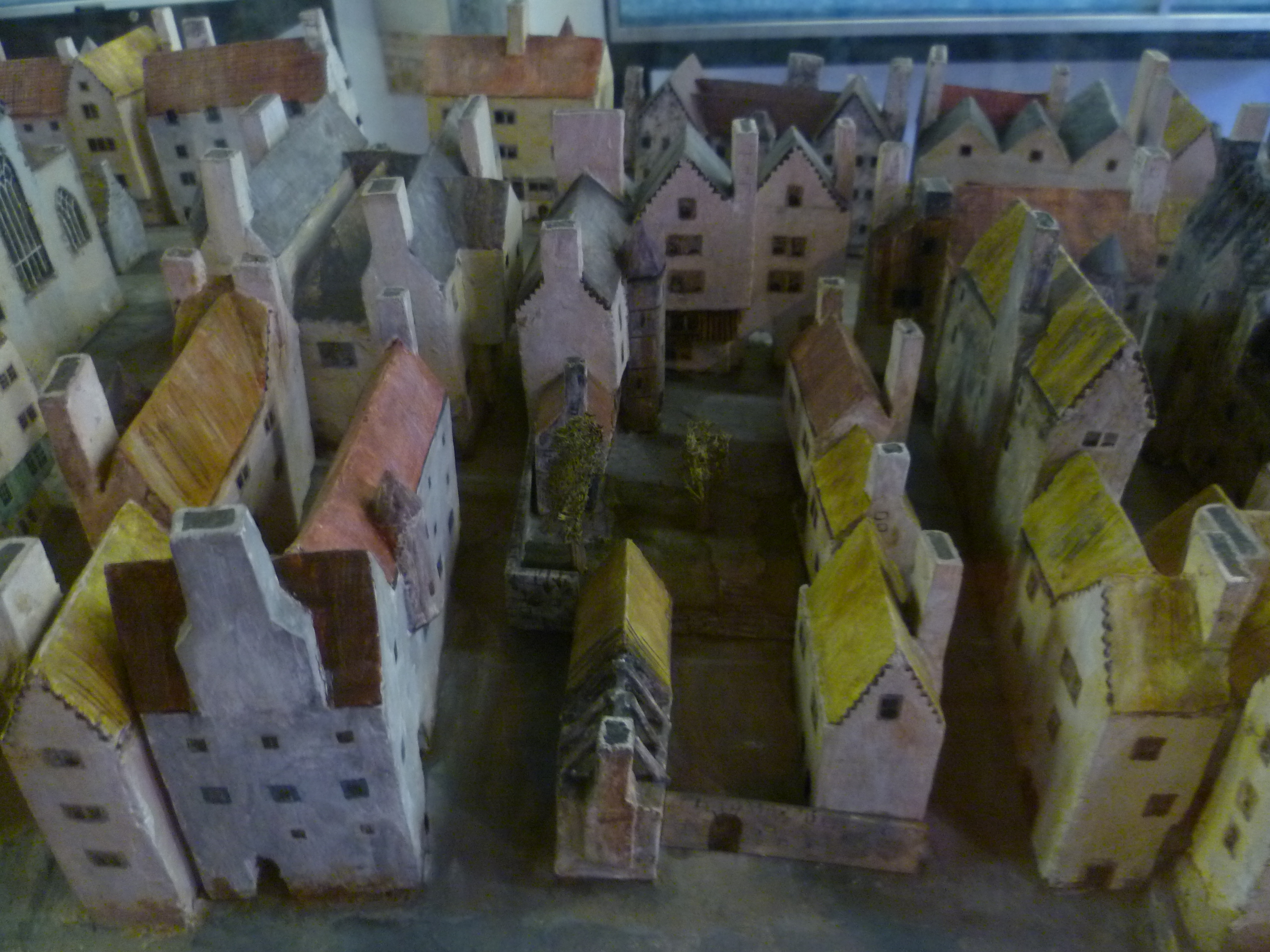 Part of a model in Edinburgh's Huntly House Museum illustrating the layout of closes in the Old Town of Edinburgh c.16th-17thC